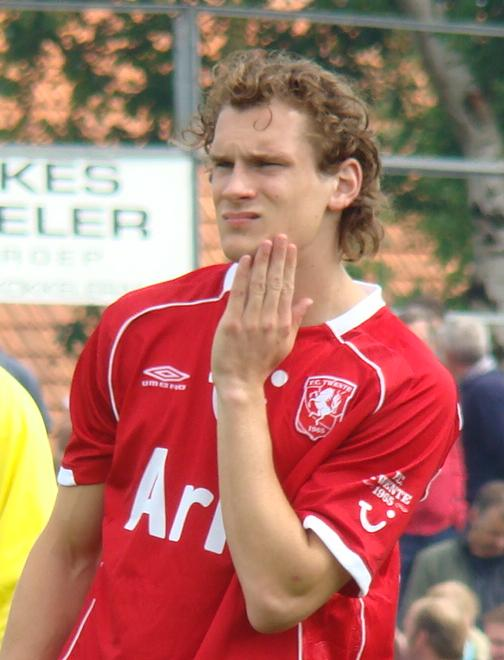 Image of the FC Twente-player Patrick Gerritsen